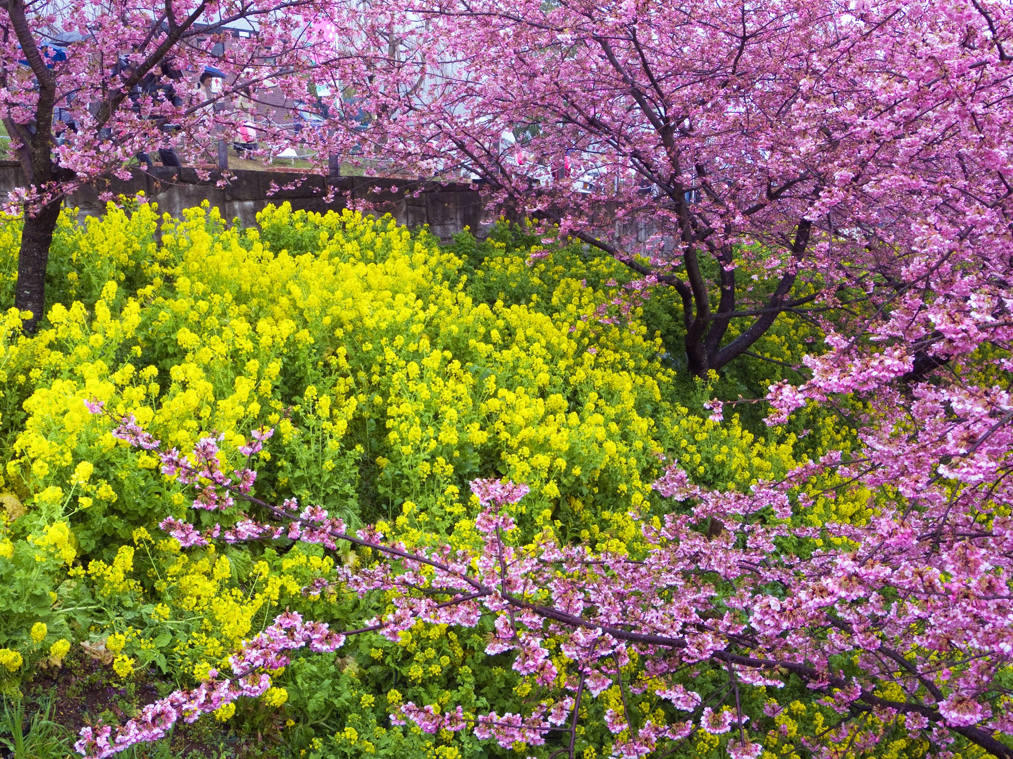 まつだ桜まつり (Cherry blossoms festa at Matsuda, Kanagawa) 18 Mar, 2012